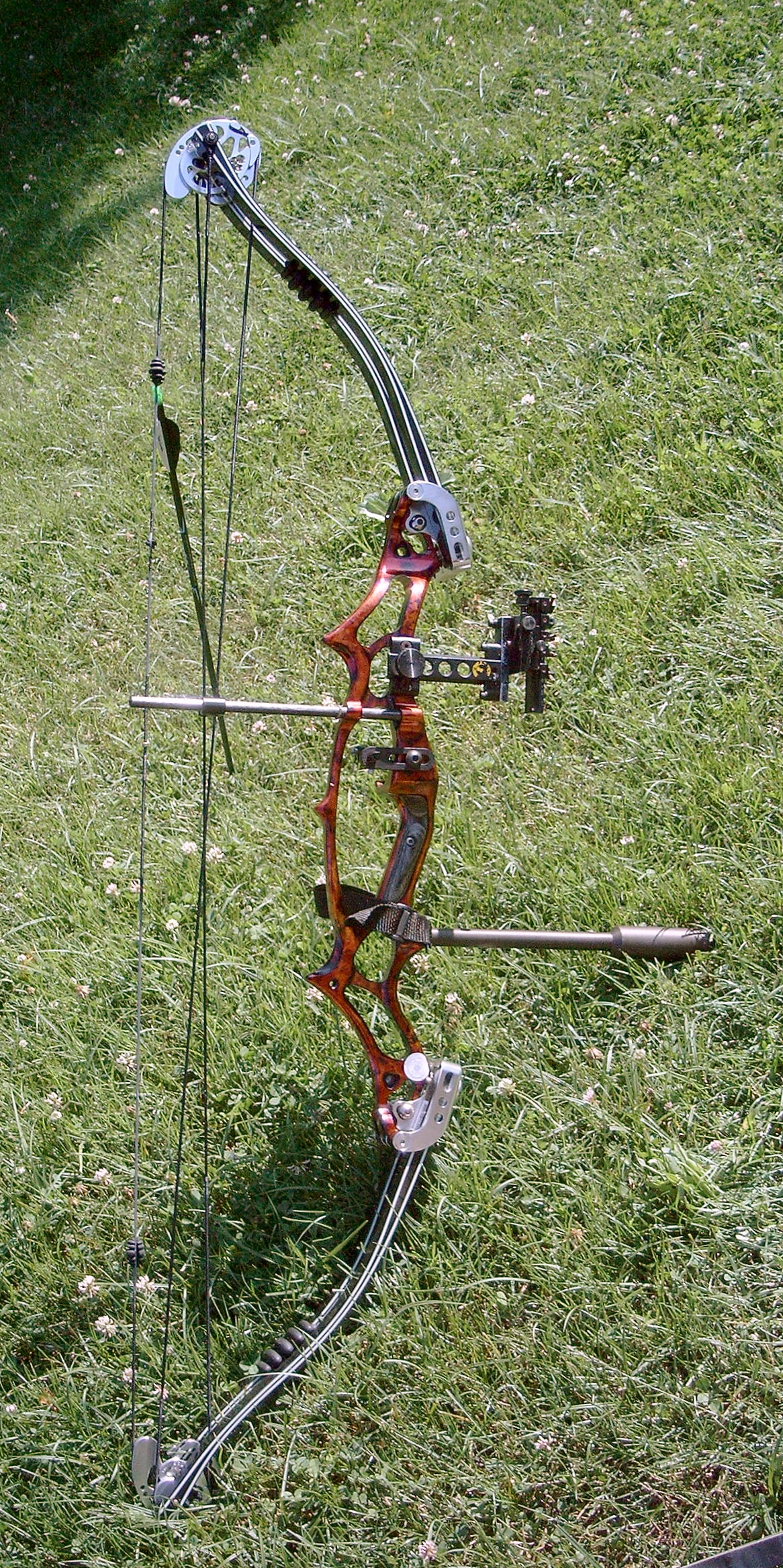 Modern compound bow with double cams